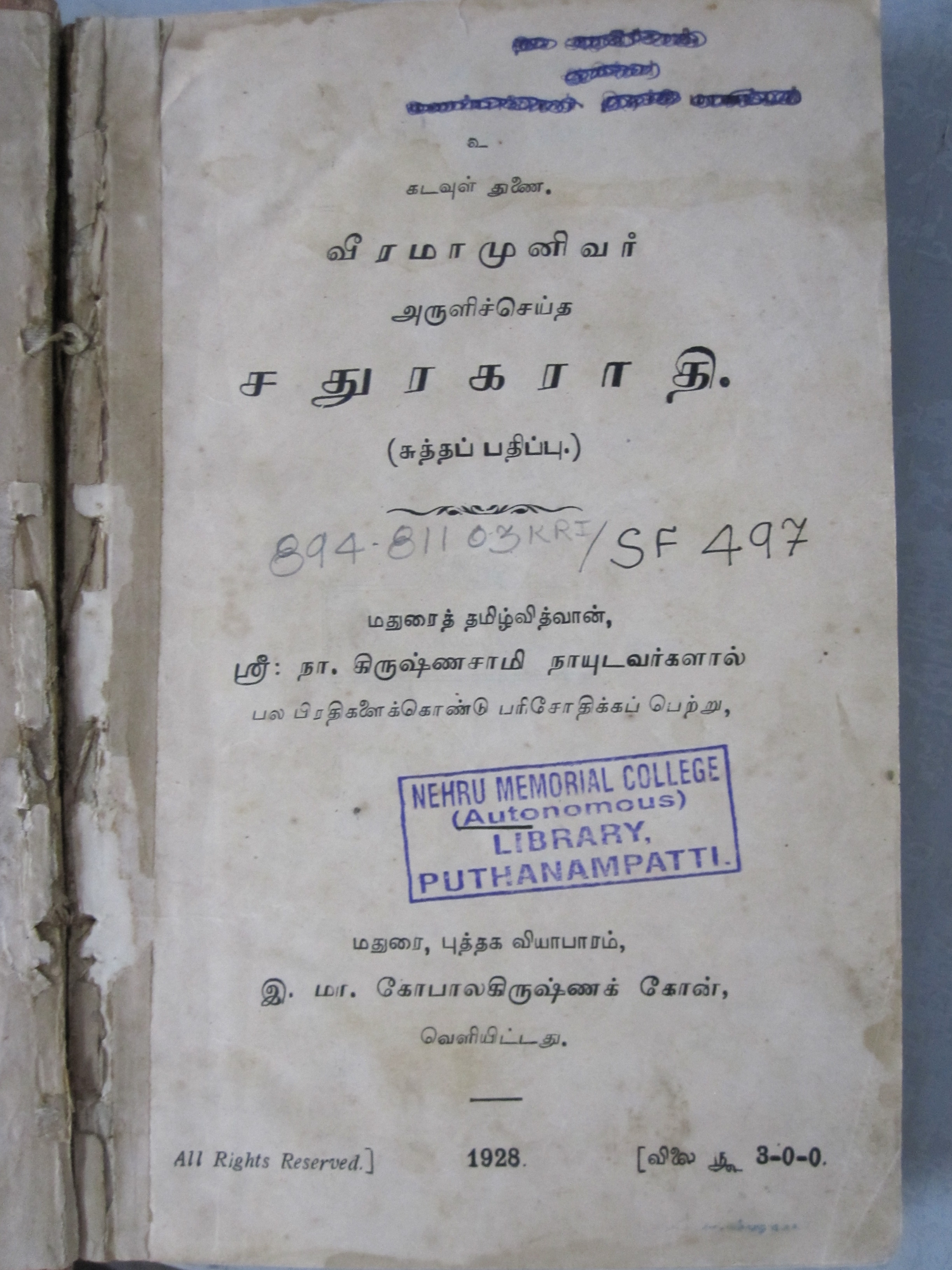 Front page of Veeramamunivar's (Constanzo Beschi) Tamil dictionary Sathuragaradhi. It was the first Tamil-Tamil dictionary and was first published in 1732. This edition was published by Ra. Krishnasami Naidu in 1928 at Madurai. This particular copy is from the library of Nehru Memorial College, Puthanampatti, Tamil Nadu, India